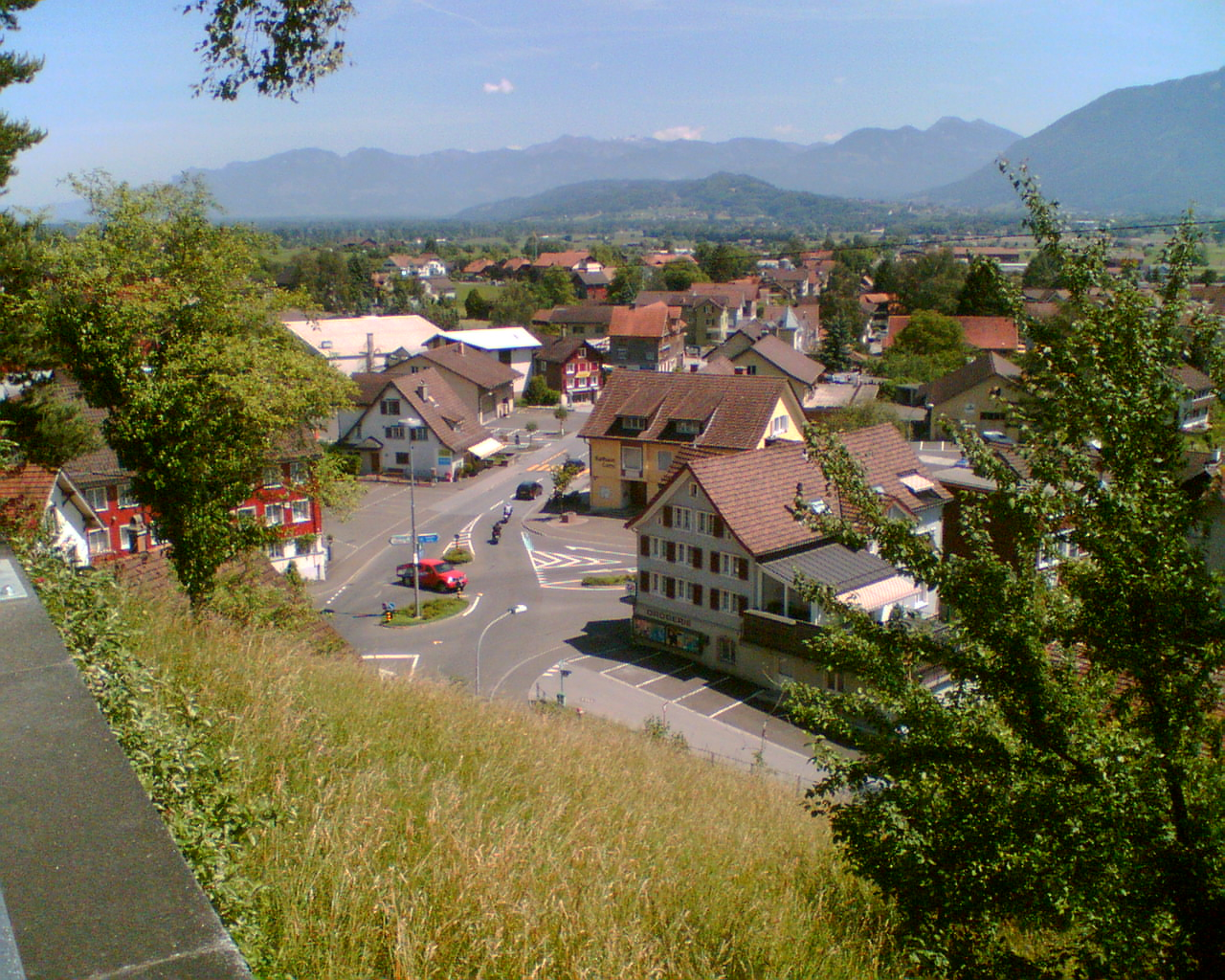 Cool